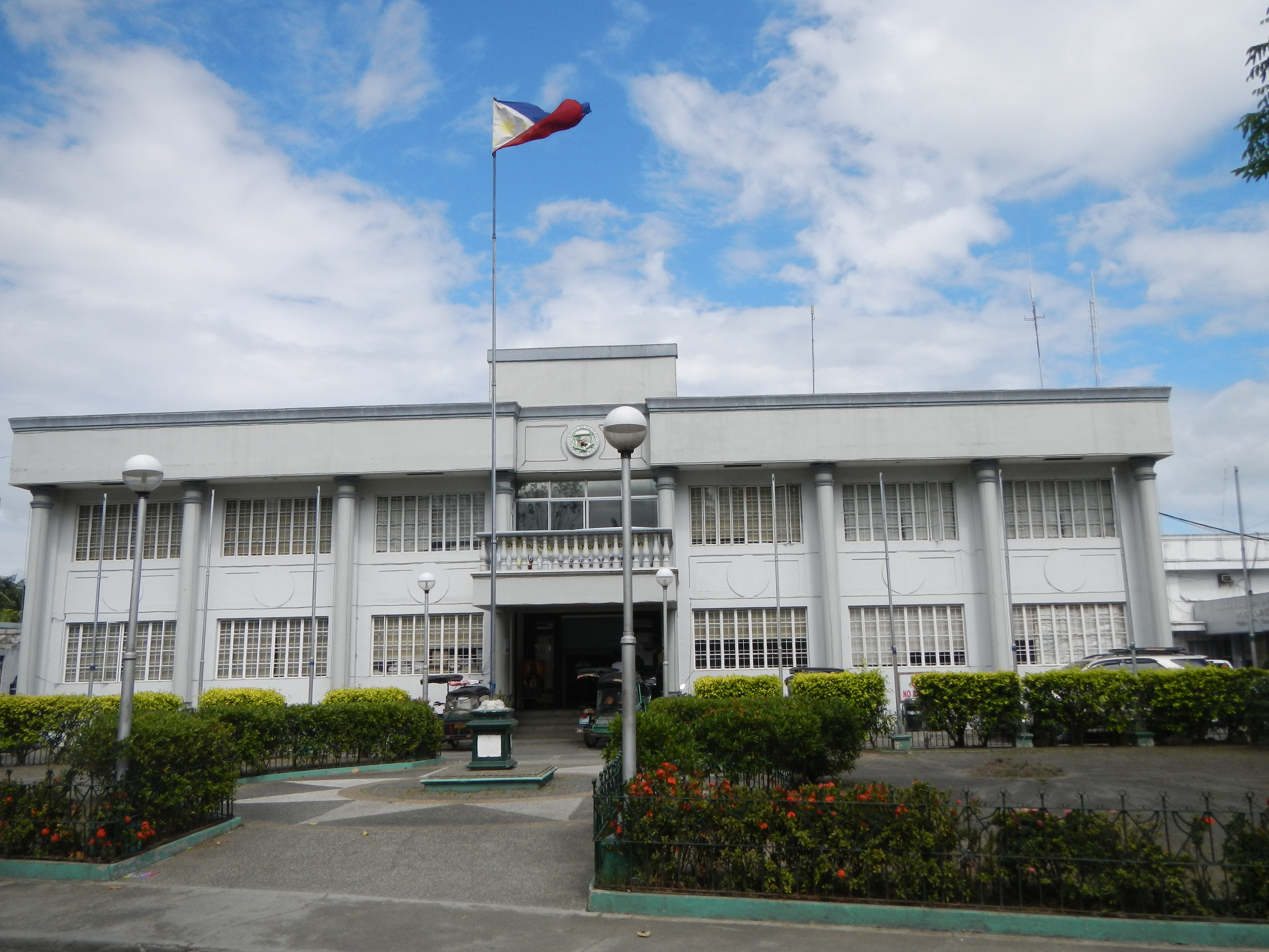 Barangay Poblacion, Pulilan, Bulacan - Pulilan Municipal Hall Town Hall Compound, Complex and Municipal Offices, Court, Plaza, Rizal Monument and Museum.